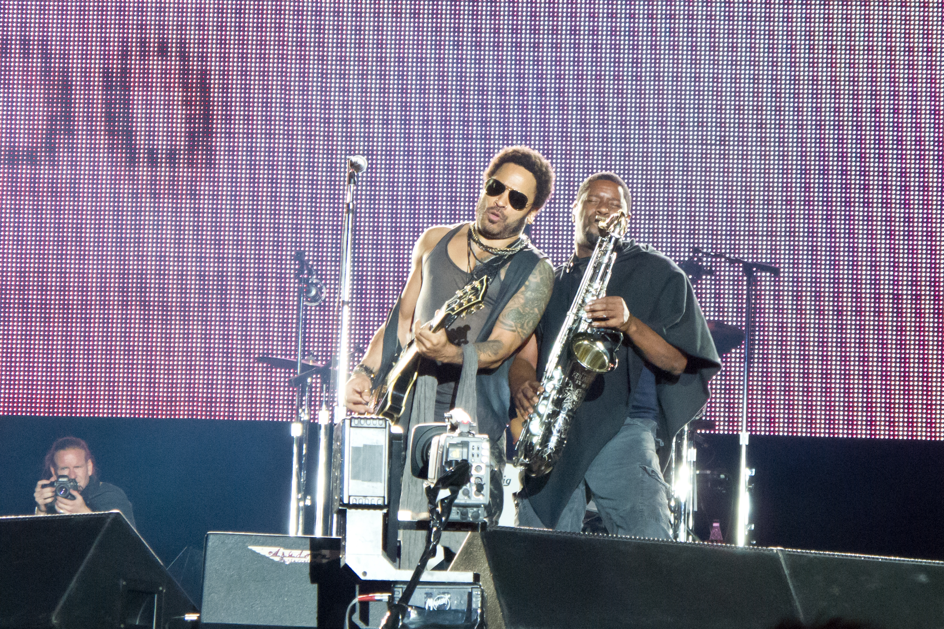 Lenny Kravitz live in Rock in Rio Madrid 2012.